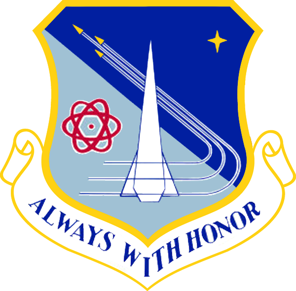 United States Air Force Officer Training School emblem. Made with Photoshop.